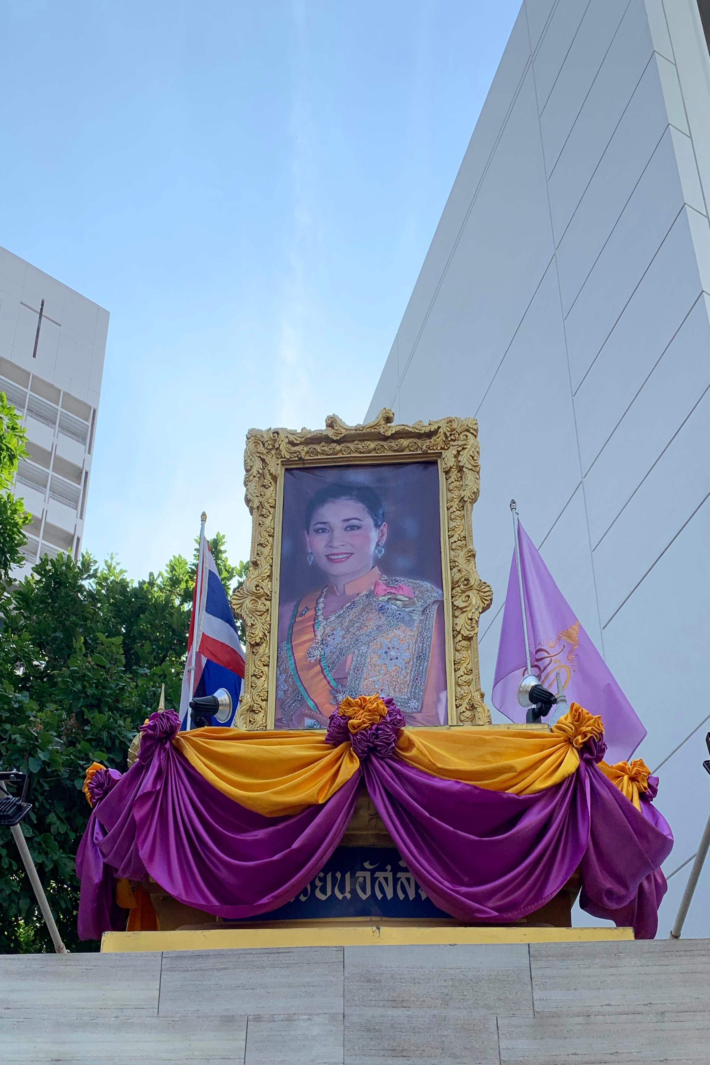 Queen Suthida image erected to pay tribute on her birthday